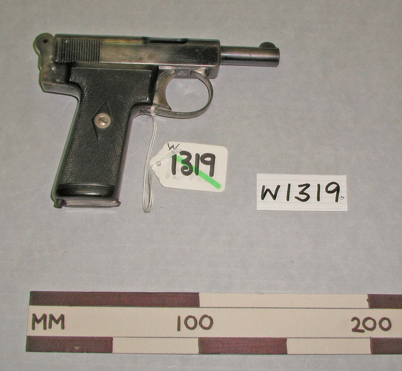 Webley and Scott Model 1911 semi-automatic pistol, (circa 1940) (WW1-WW2) pistol, semi-automatic- Webley and Scott Model 1911; .32 inch calibre, 7.65mm; plastic chequered grips; with magazine; safety catch on left hand side; magazine unlocking lever on underside of butt markings- on left rear of body- serial number- 85903 on left side of frame- WEBLEY and SCOTT LTD. - LONDON and BIRMINGHAM - 7.65 m-m and 32 AUTOMATIC PISTOL - SAFE - (Webley and Scott logo with initial)s- W and S on left hand side rear of body- Webley and Scott logo Maker- Webley and Scott Ltd. London - Birmingham. WW1